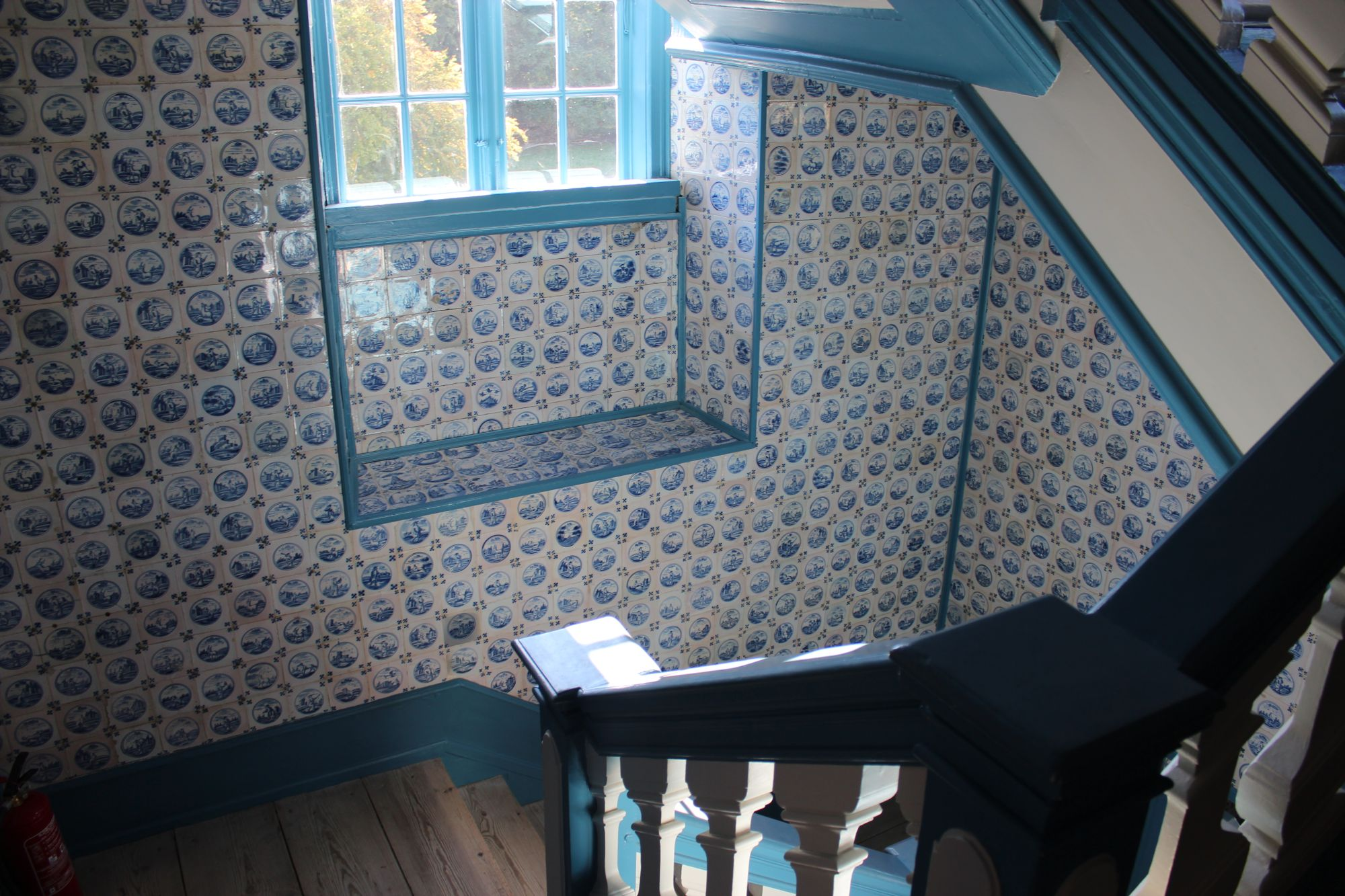 The Stairs